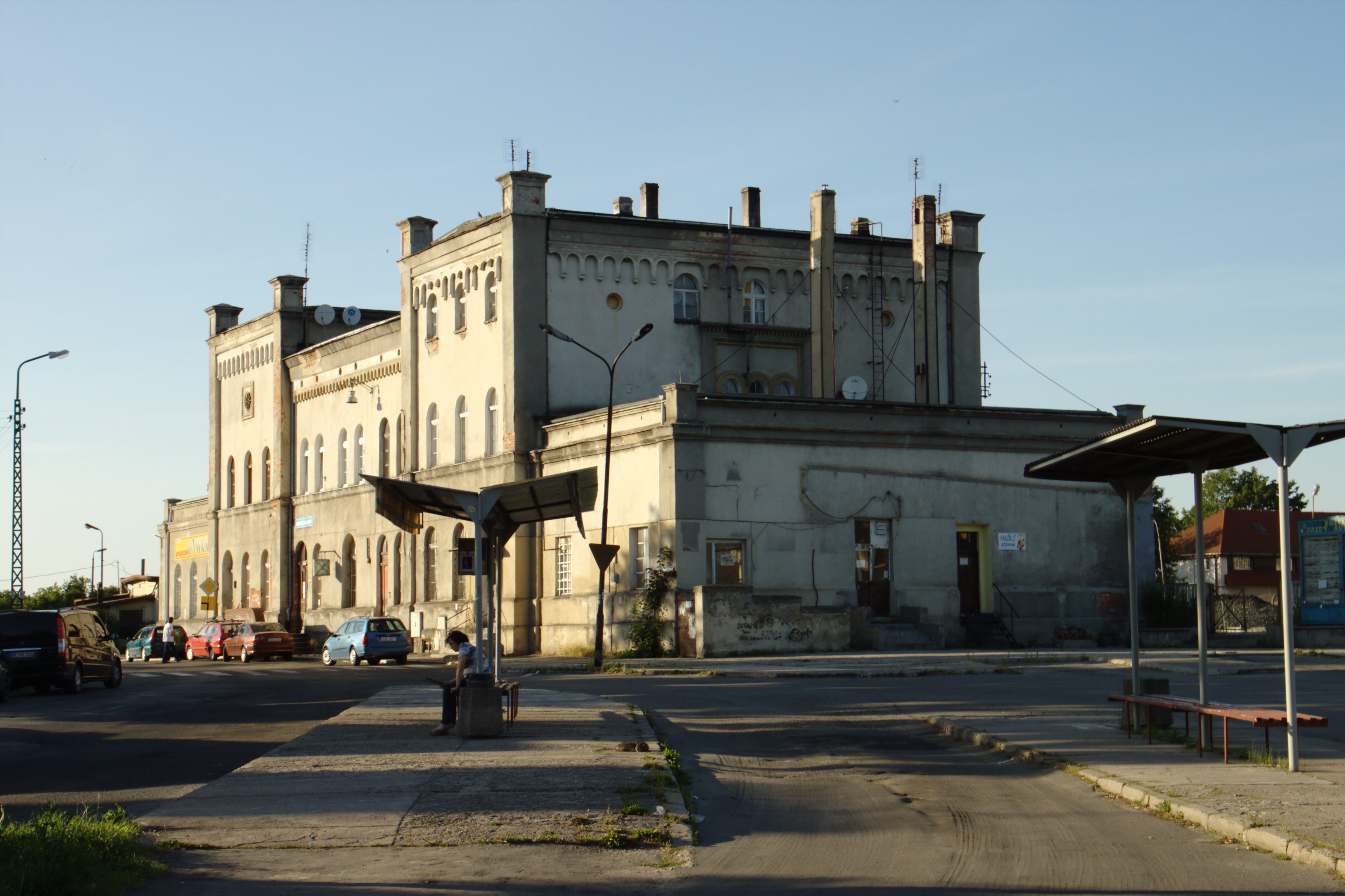 Ząbkowice Śląskie train station in evening, Poland